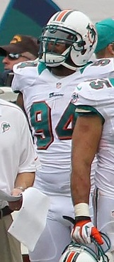 The Miami Dolphins vs the Oakland Raiders.